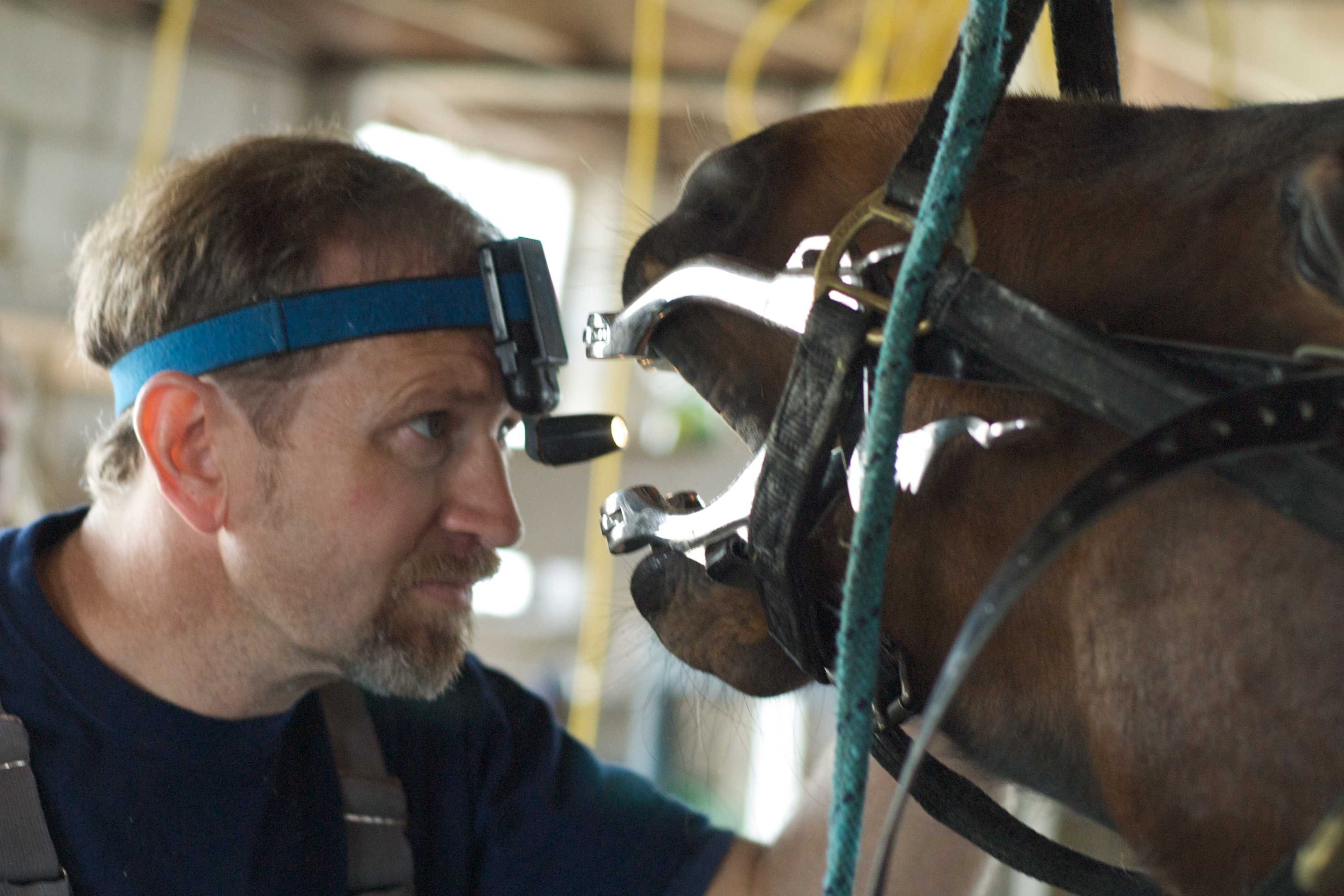 Dr. Froenig checking out our mare Sioux's teeth after a round of grinding with his power float. She's been sedated, which is why Dr. Froenig can stare into her mouth like that while she is holding perfectly still.